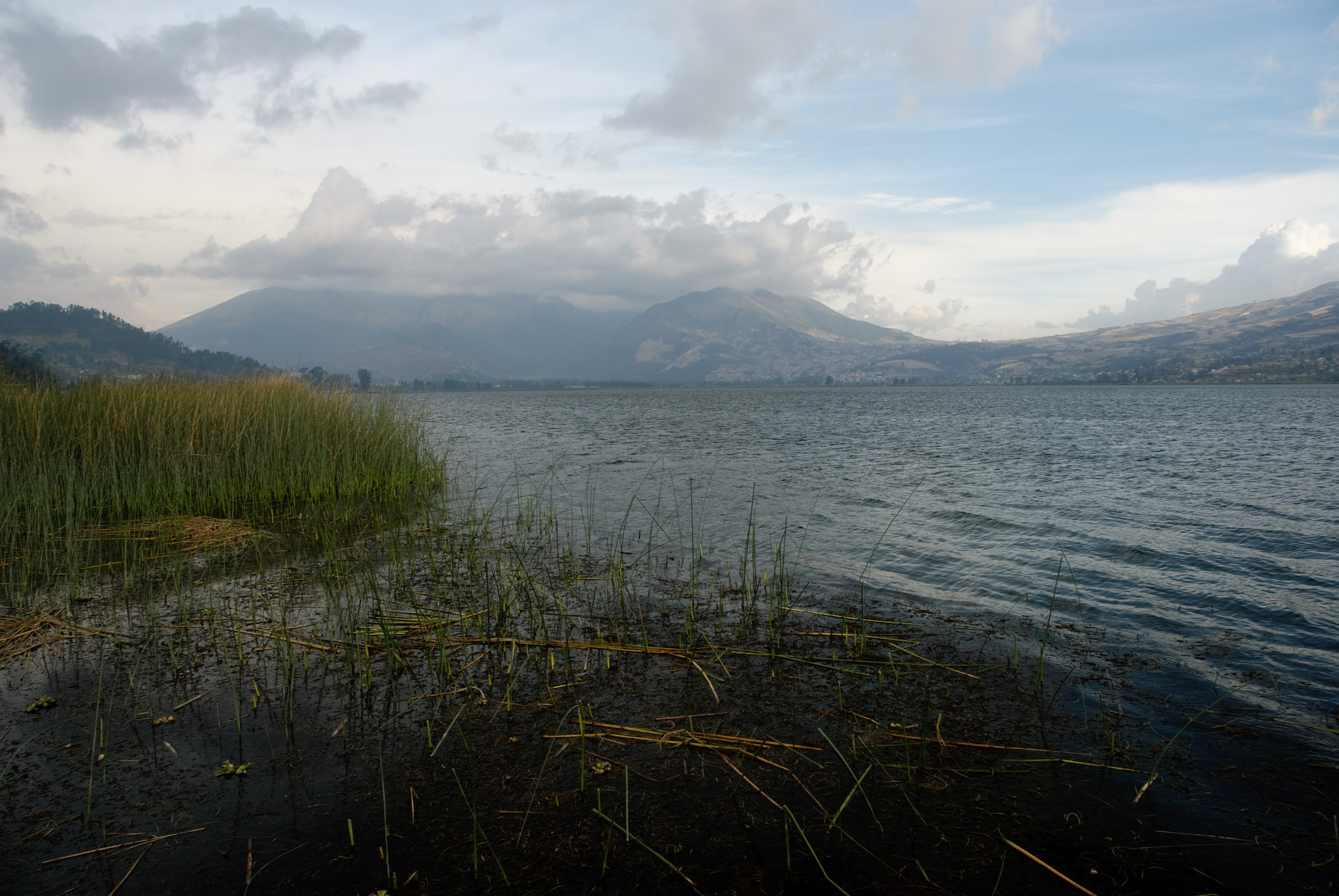 San Pablo lake, and Imbabura volcano (background, in the clouds). Near Otavalo, Ecuador